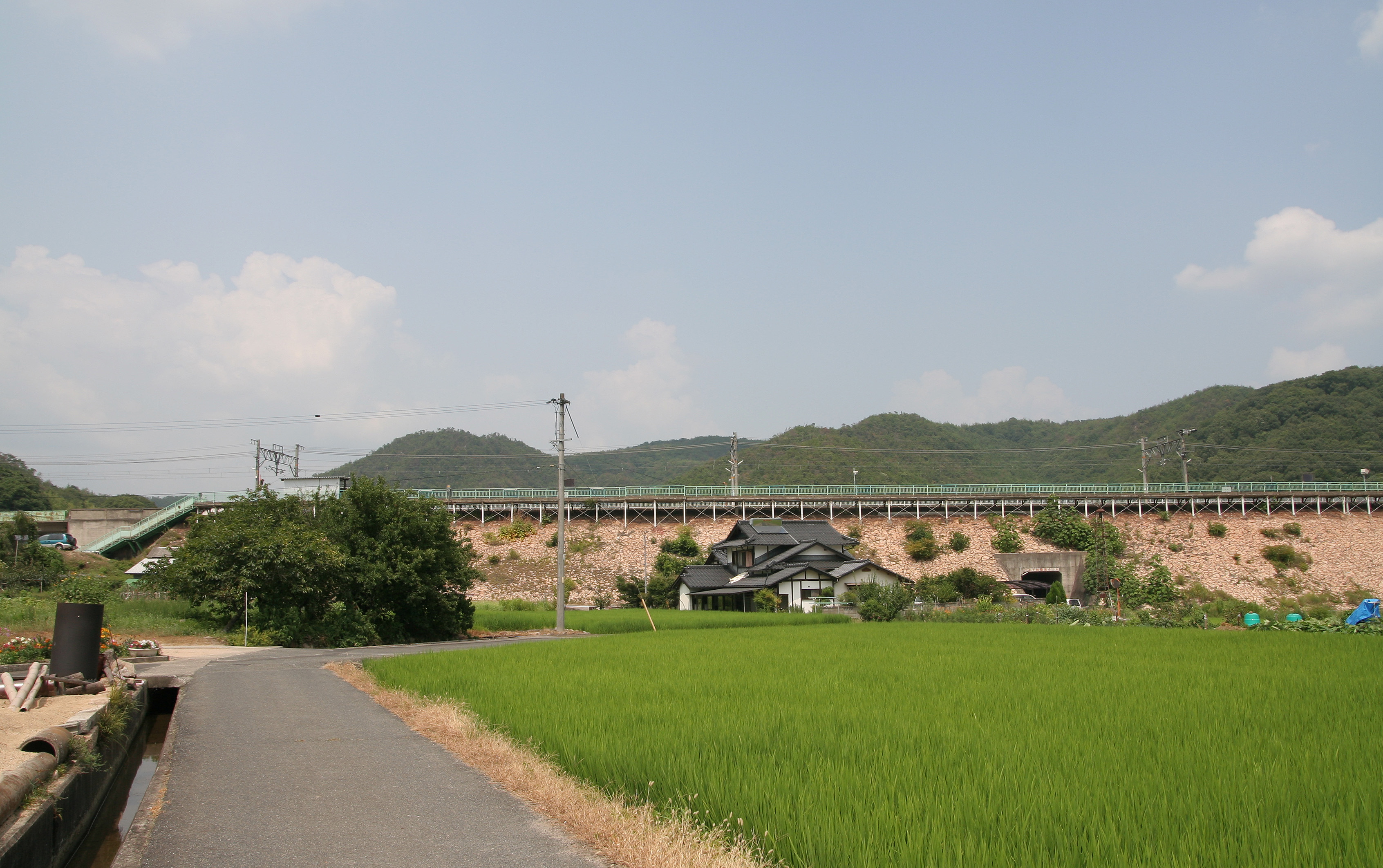 West Japan Railway Hakubi Line hiwa station entire circumstances